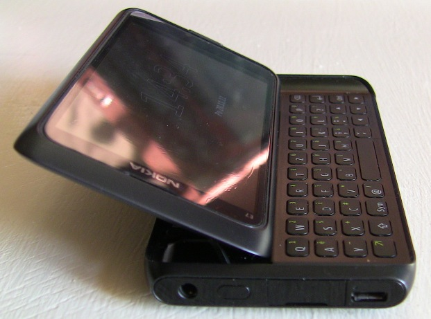 Picture of mobilephone Nokia E7